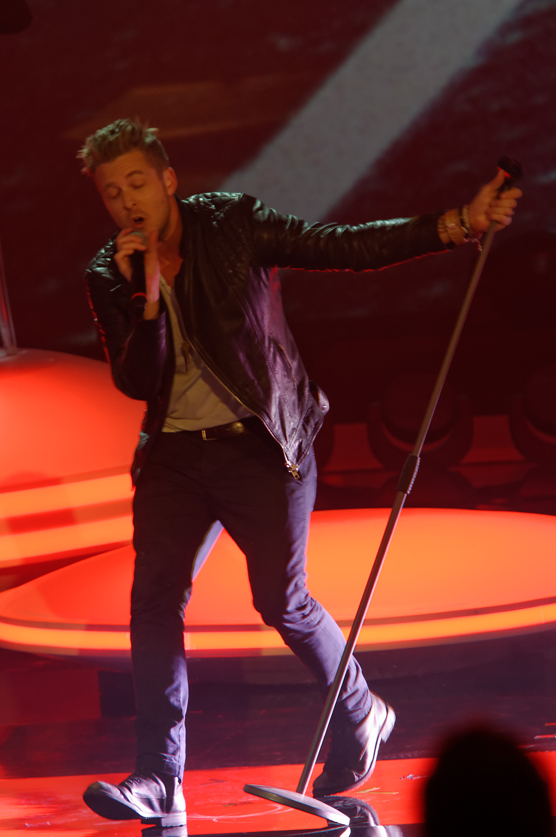 Wetten, dass.. ? am 23. März 2013 in der Stadthalle Wien The making of this document was supported by Wikimedia Austria. One Republic